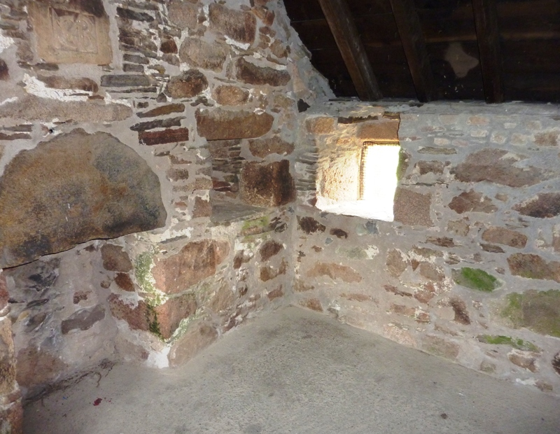 Ardclach Bell Tower, Ardclach, Highland, Scotland - interior of upper room